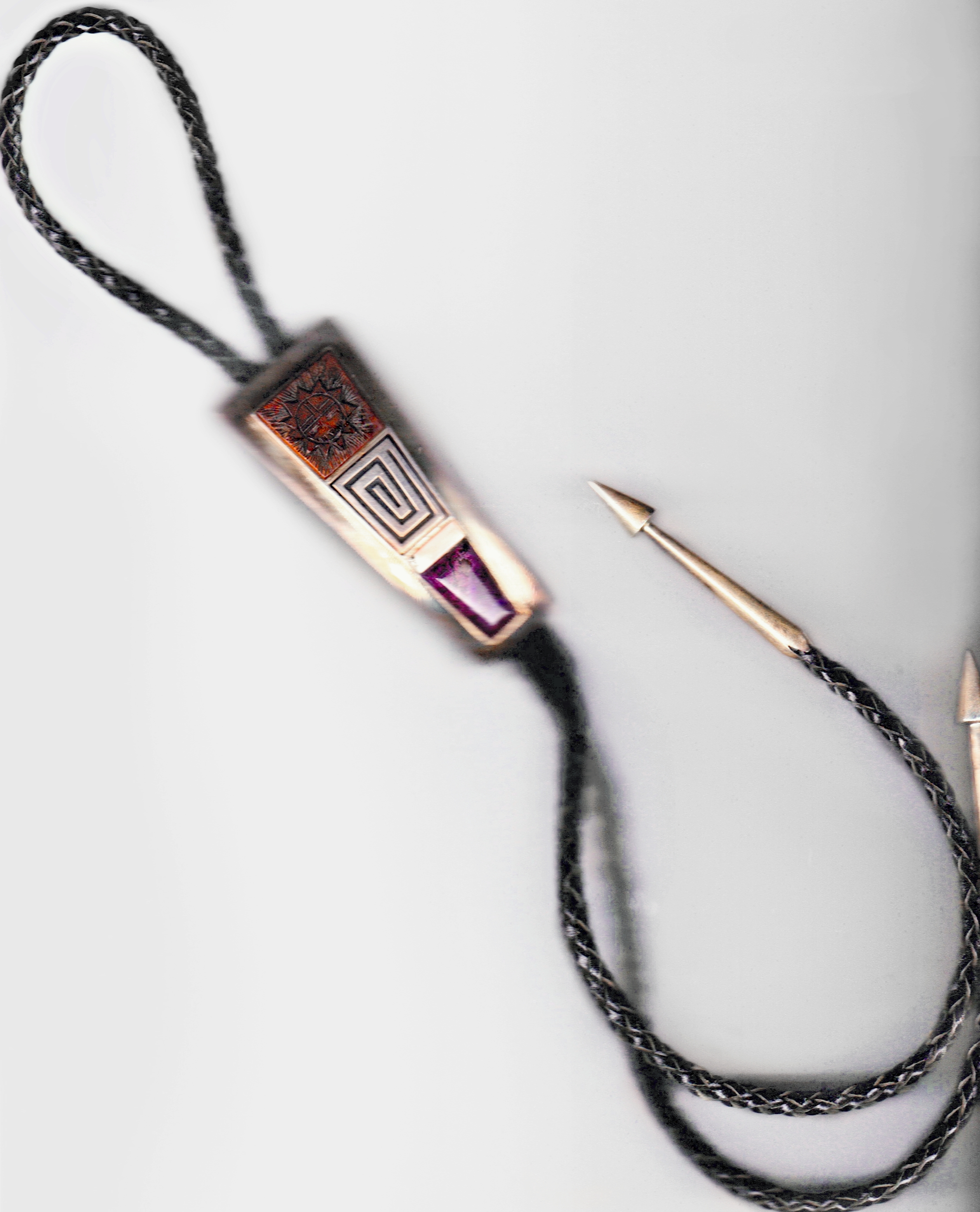 A bolo tie by Hopi artist Phillip Sekaquaptewa, made in 1988. From Marek Wojciech Ługowski (Lugowski)'s personal collection of Hopi silver overlay. Acquired from artist himself during week-long residence with him on Third Mesa, Arizona, in December 1988.